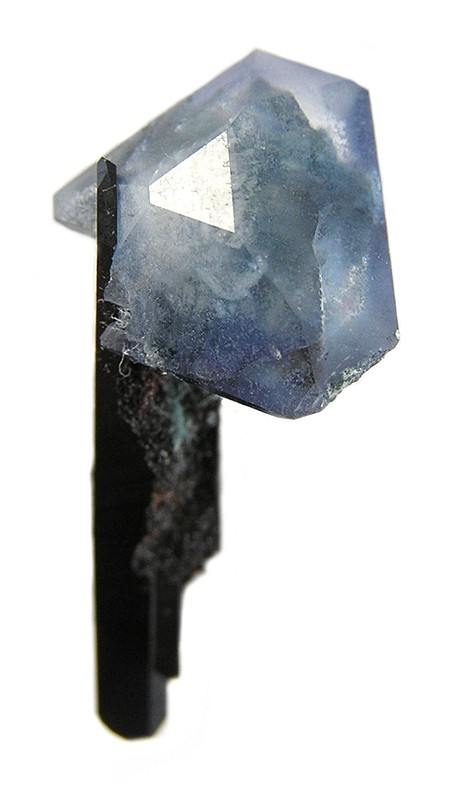 Benitoite, Neptunite Locality: Dallas Gem Mine (Benitoite Mine; Benitoite Gem Mine; Gem Mine), Dallas Gem Mine area, San Benito River headwaters area, New Idria District, Diablo Range, San Benito County, California, USA (Locality at ) What a thumbnail!!!! The benny is 1.5 across at longest, exceptionally gemmy, and just PERCHED incredibly on a doubly-terminated neptunite! Just an incredible specimen.... (not from the Mauthner Collection) 2.9 x 1.4 x 1.0 cm